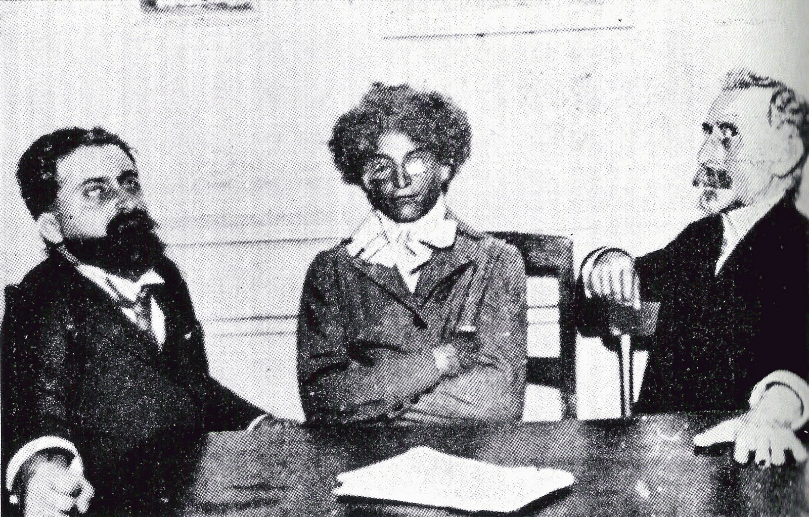 The medium Carlos Mirabelli (left) with alleged materialization (centre).